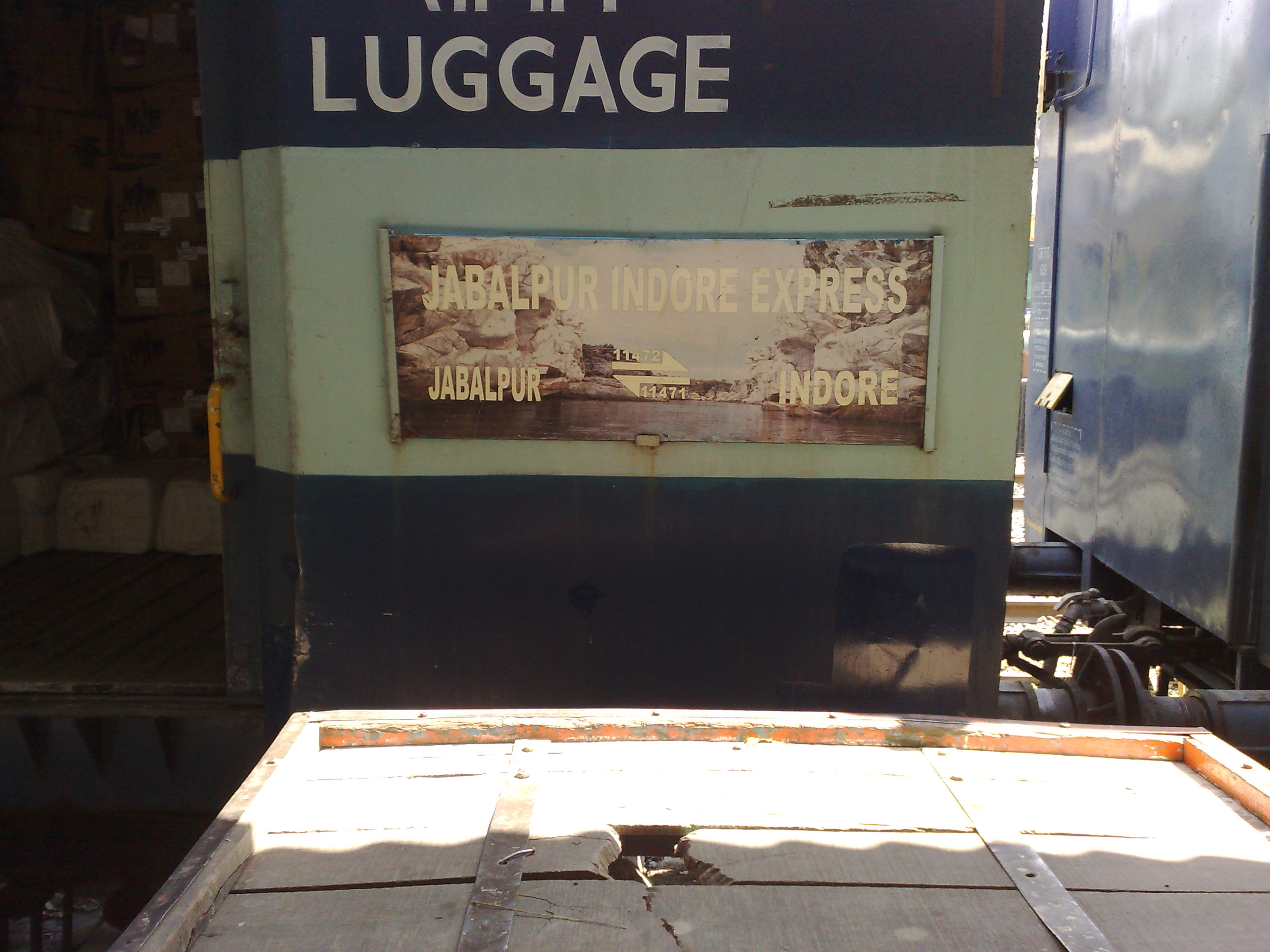 Indore Jabalpur Express Trainboard